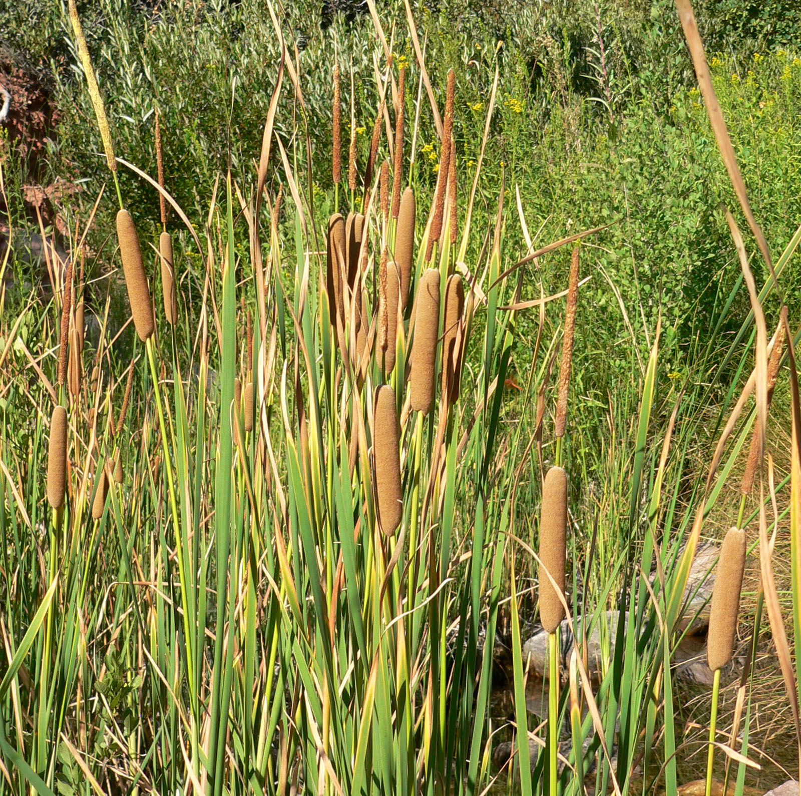 Typha domingensis in Pine Creek Canyon near the old homestead, Red Rock Canyon, Spring Mountains, southern Nevada (elev. about 1200 m)